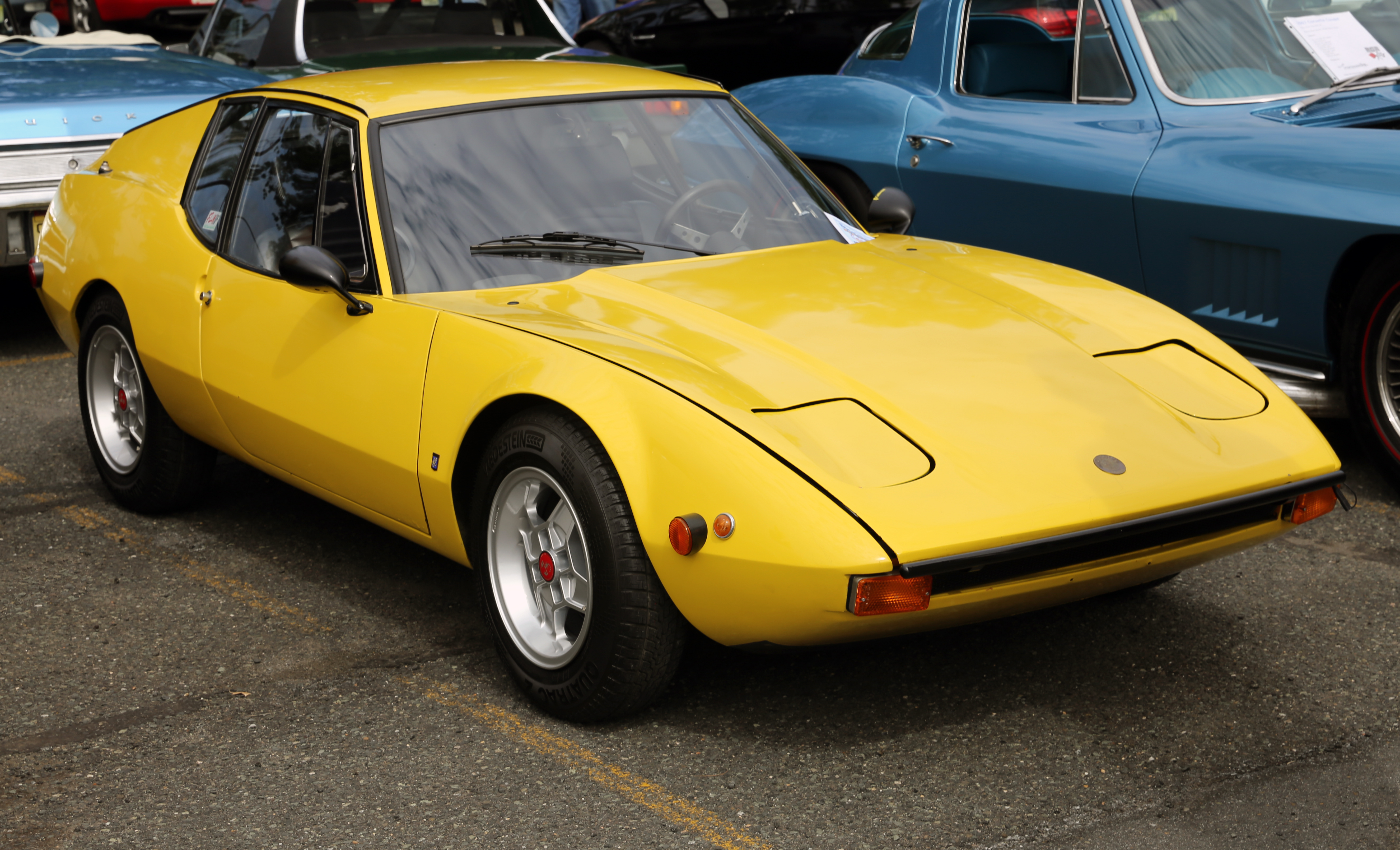 1971 OTAS Grand Prix 820cc (to give the car's full name according to the emissions plate). This car, chassis no 0035, has had the original 817cc engine replaced by a later, larger unit of 903cc - if I remember correctly.